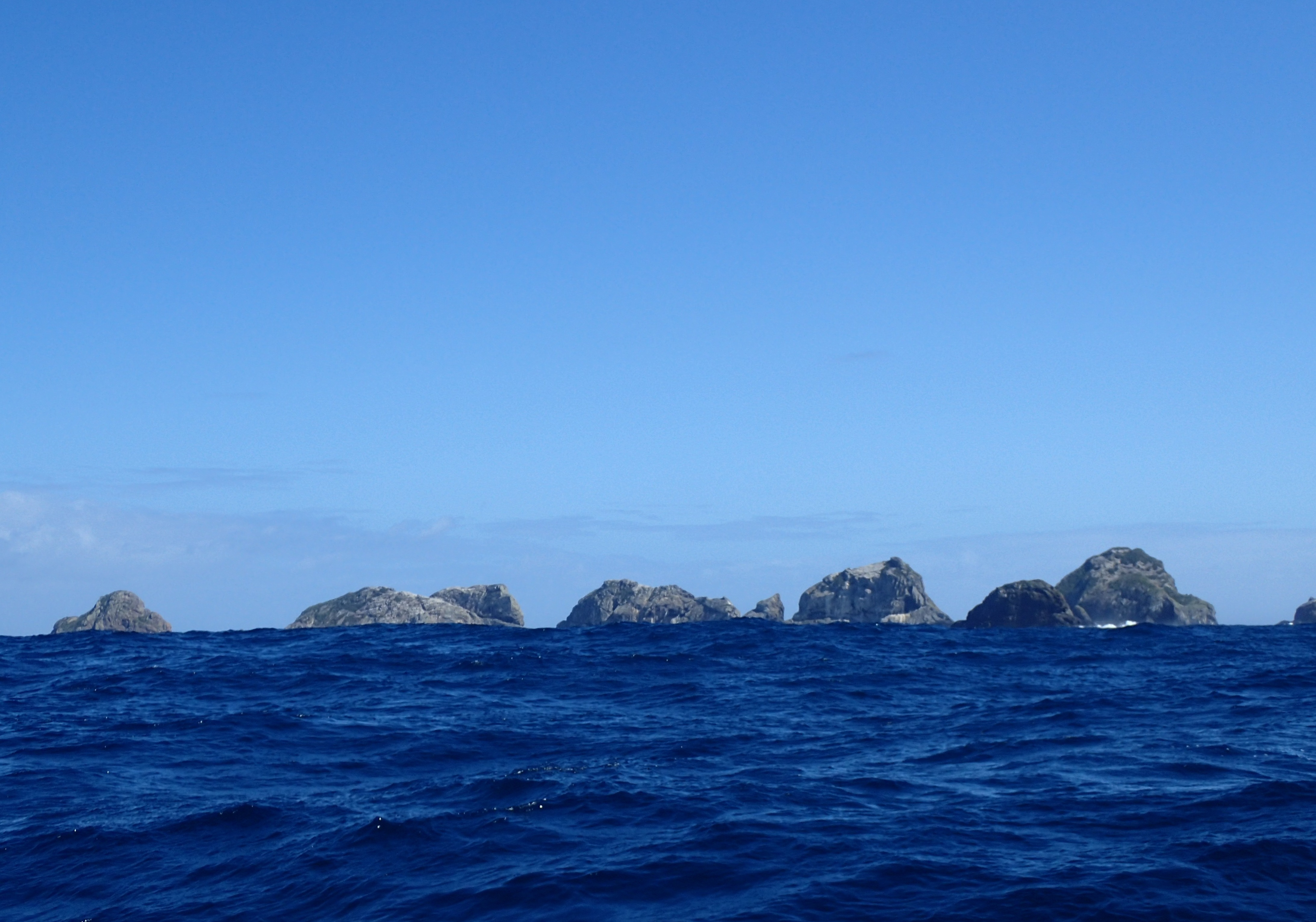 Rosemary Rock - Dark Dome-Shaped Island in the foreground of the island group, 4/5 of the way across the horizon to the right and just to the very left of the white breaking wave